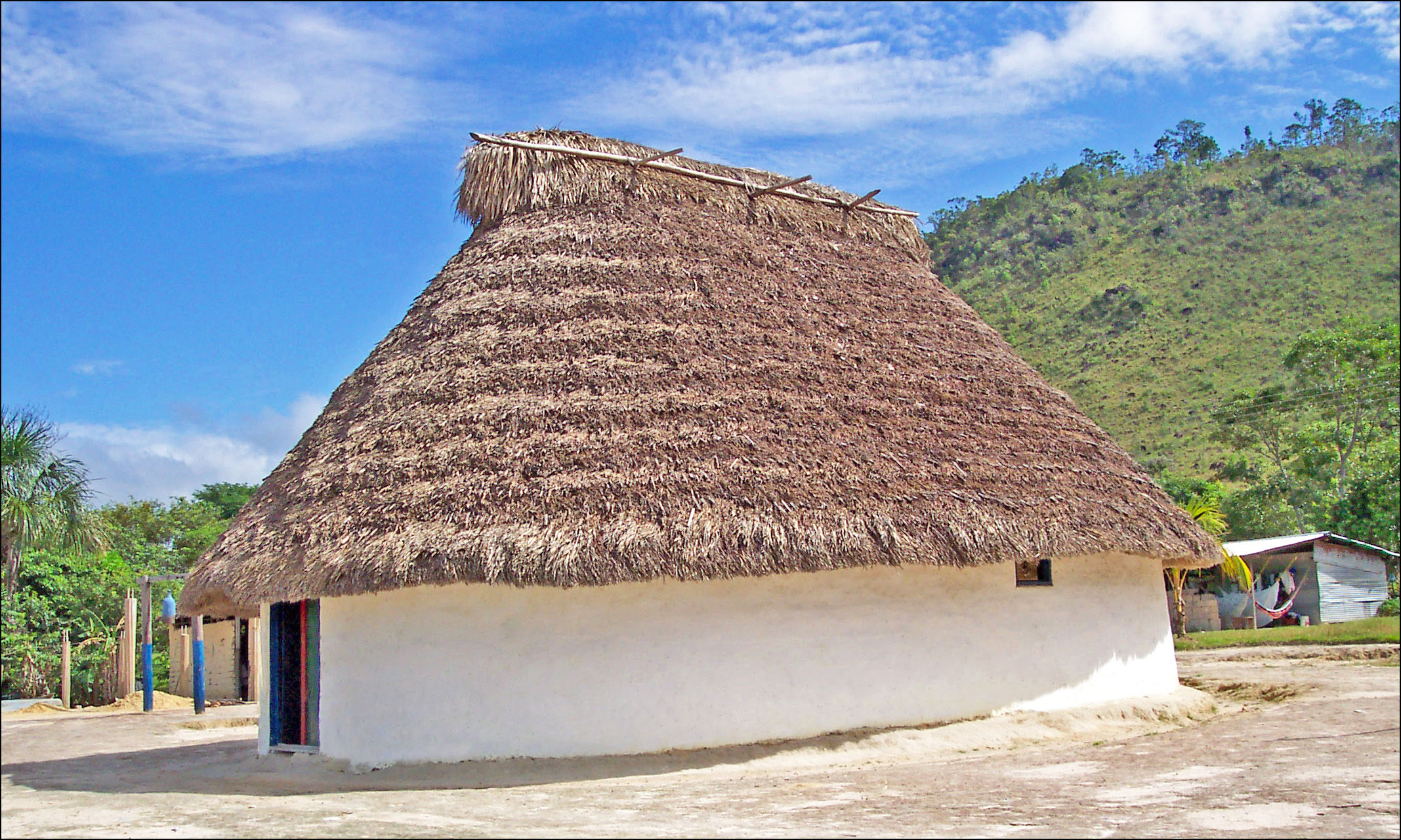 Traditional Venesuelan thatch roofing.